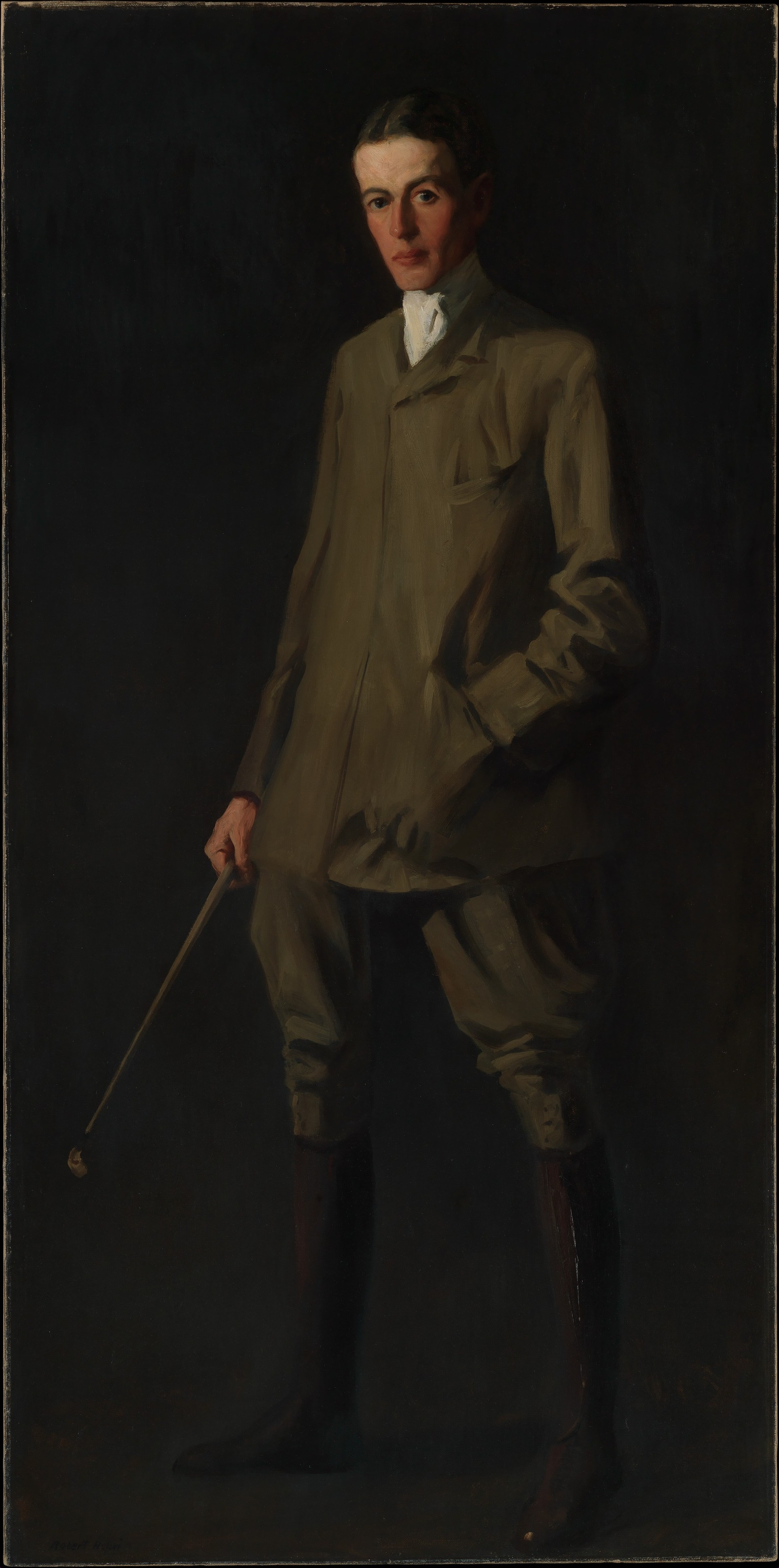 F. Ambrose Clark Artist:Robert Henri (American, Cincinnati, Ohio 1865–1929 New York) Date:1904 Medium:Oil on canvas Dimensions:77 5/8 x 38 1/4 in. (197.2 x 97.2 cm) Classification:Paintings Credit Line:Purchase, Stephen C. Clark Jr. Gift, 1982 This elegant portrait was commissioned by the wealthy family of F. Ambrose Clark (1880–1964), a gentleman jockey and, later, a successful breeder of racehorses. Henri was the leader of the Ashcan School and a mentor to other members. Although he painted some urban scenes of the sort they preferred, he was more active as a portraitist, often, as here, enlisting the style of Diego Velázquez, which had also inspired John Singer Sargent and William Merritt Chase. Naturalistic demeanor, flattened space, broad brushwork, and a monochromatic palette are hallmarks of that style.